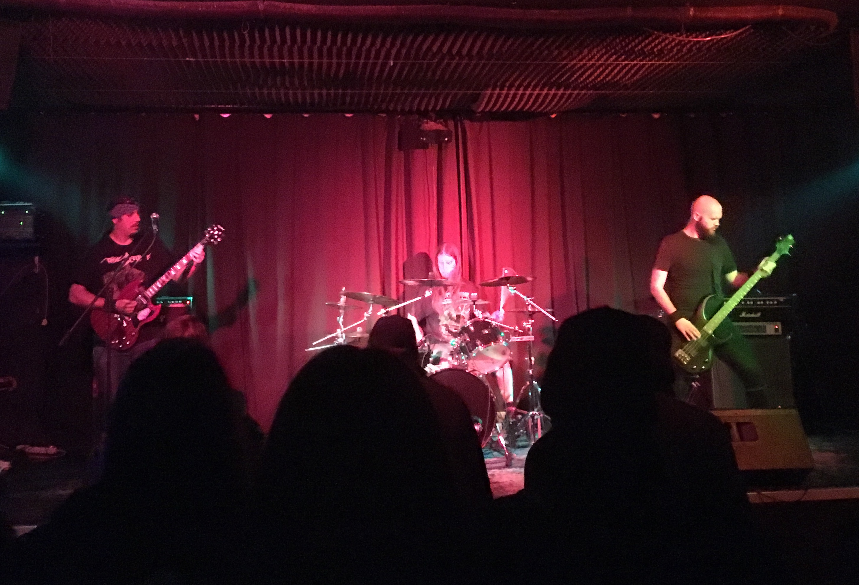 A concert of Dickless Tracy in Ljubljana, Slovenia, 2018